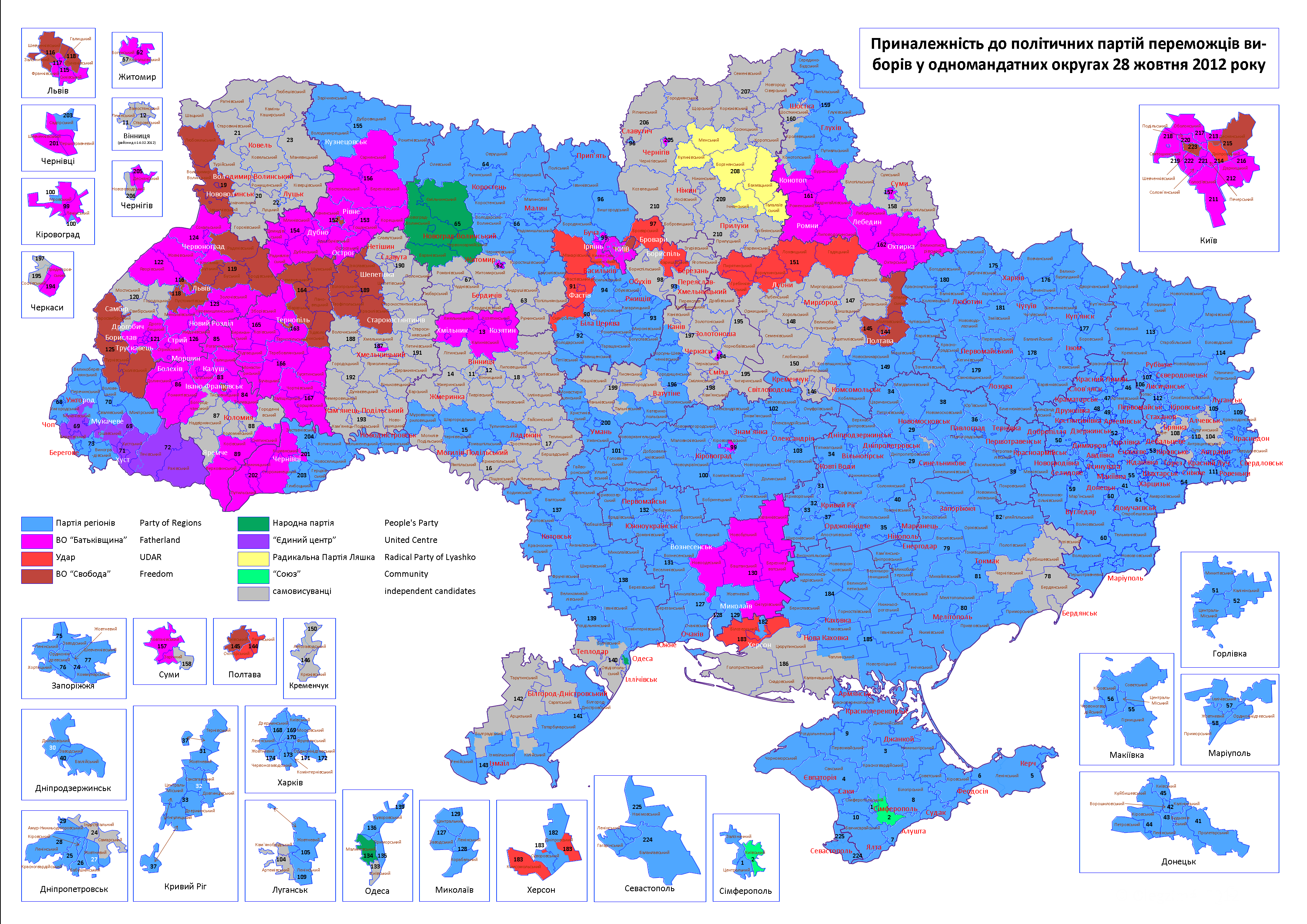 Leaders in single mandate orkugs on Ukrainian elections 2012